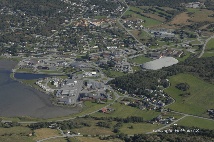 Botngaard2011Helifoto as